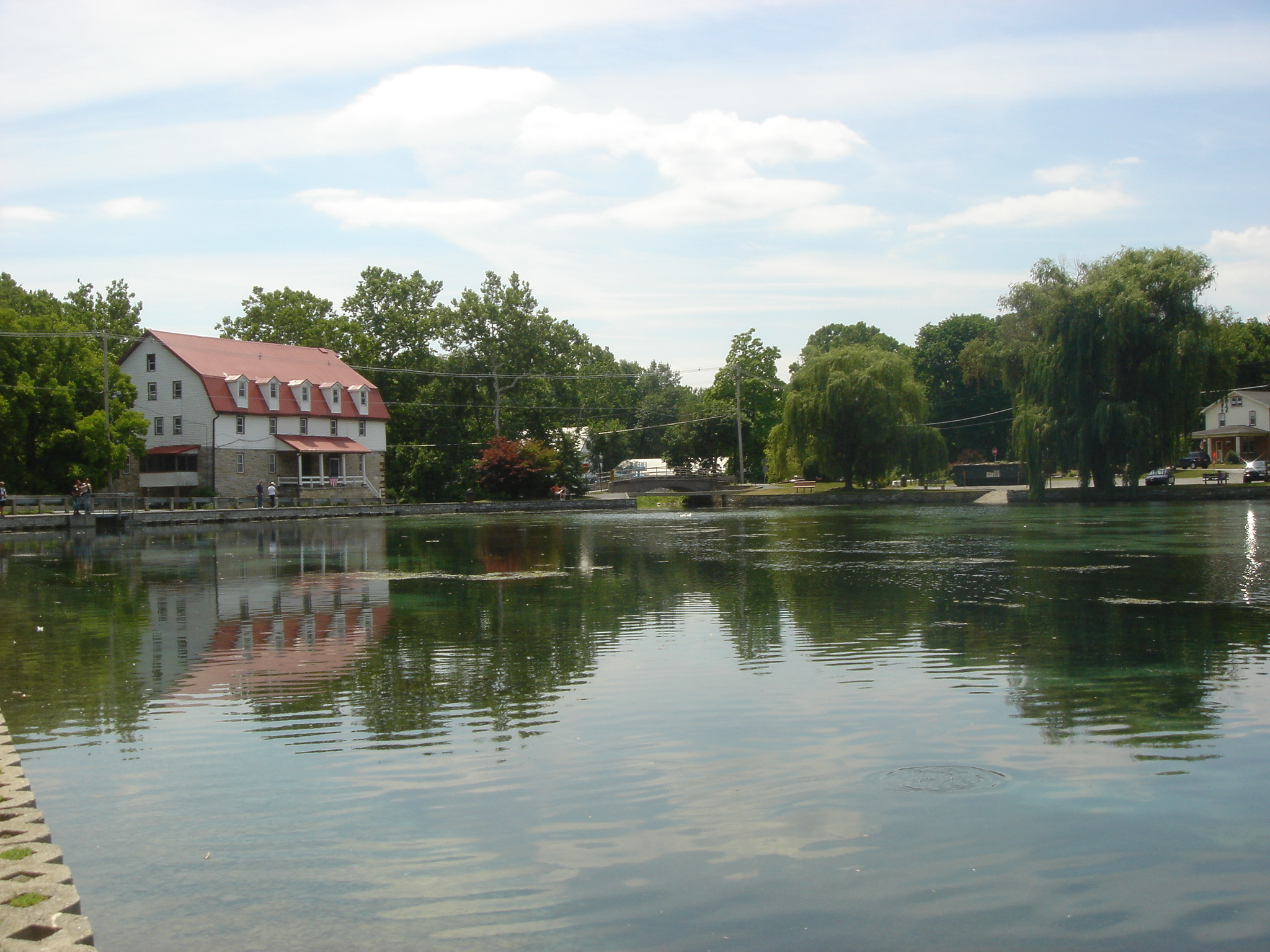 Lake in Boiling Springs, Pennsylvania, formed by damming Yellow Breeches Creek.